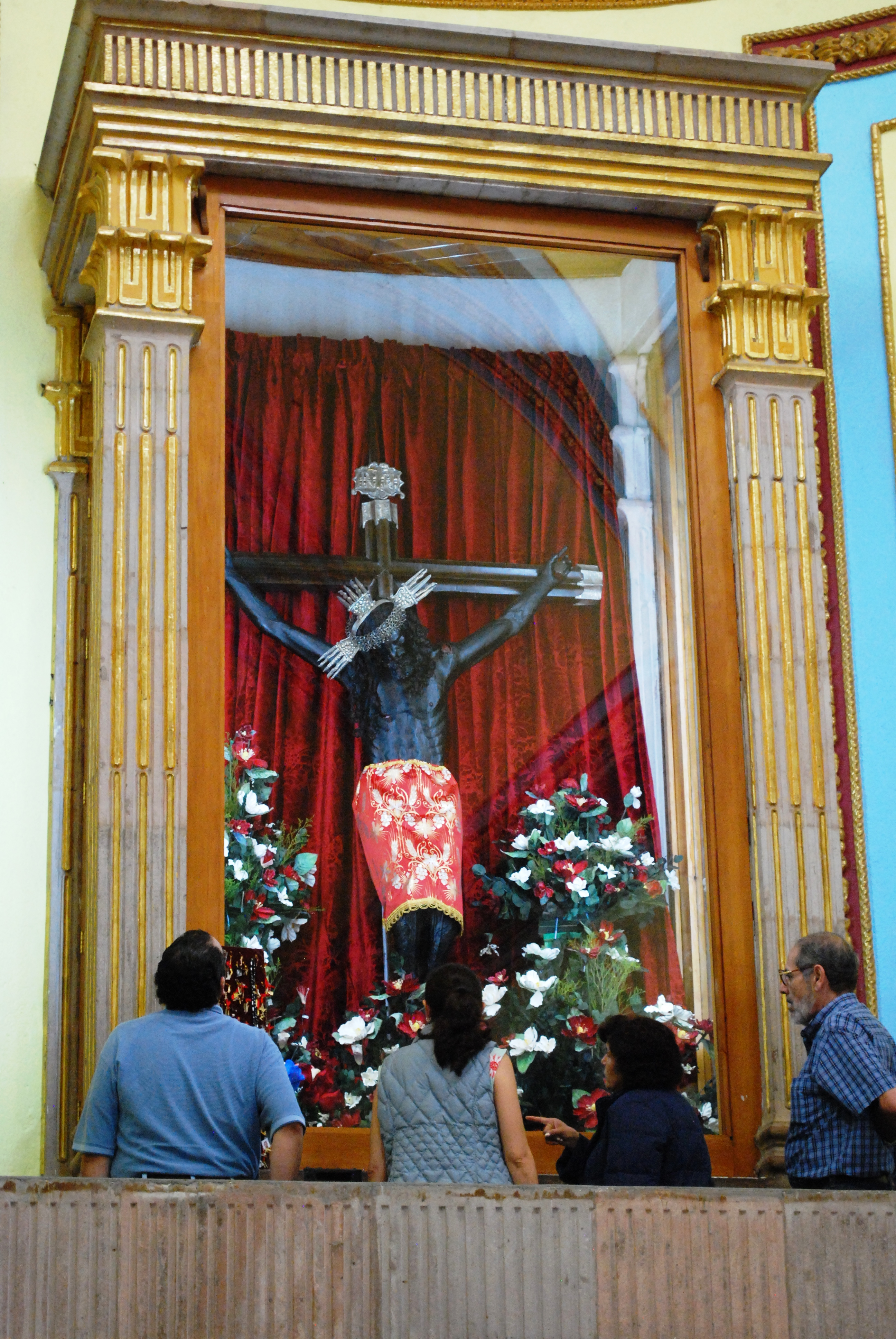 The Black Christ of Santa Maria Ahuacatlan, Valle de Bravo